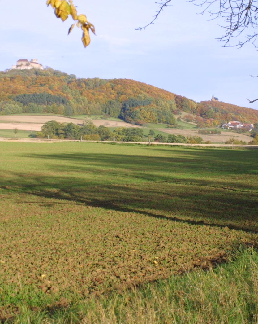 Giechburg in Franconia